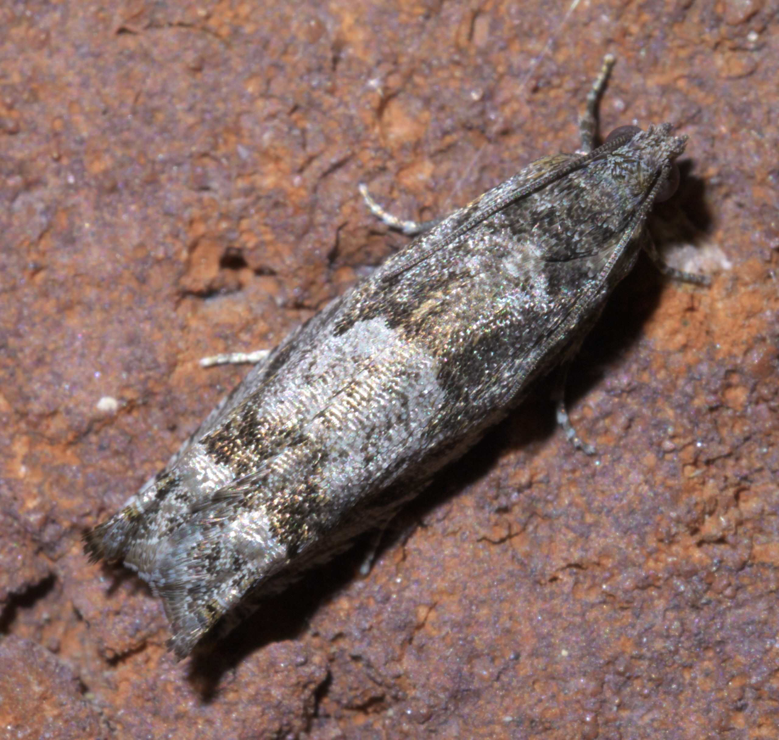 Pseudexentera spoliana, bare-patched oak leafroller, Size: 8.5 mm, ID Confidence: 85